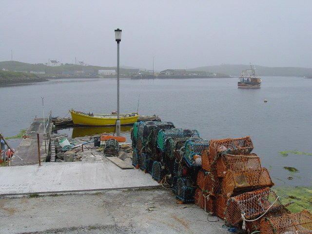 Housay jetty with Bruray in the background in the Out Skerries, Shetland, Scotland